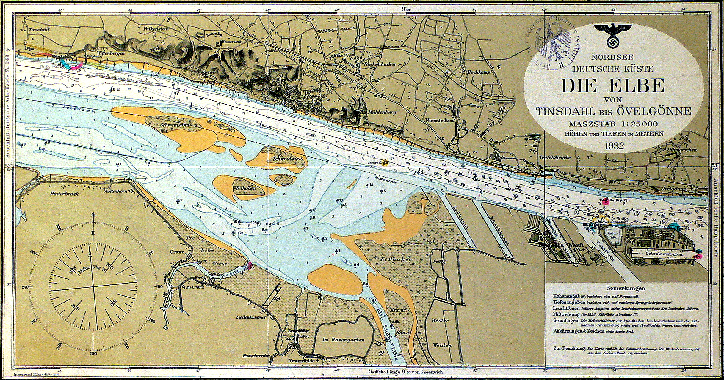 Nautical Chart of the German river Elbe between Tinsdal and Oevelgoenne